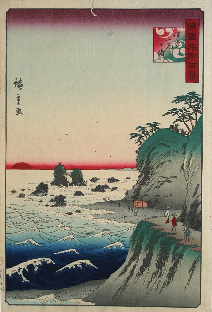 Ise Futamigaura of 100 Views of the Provinces.